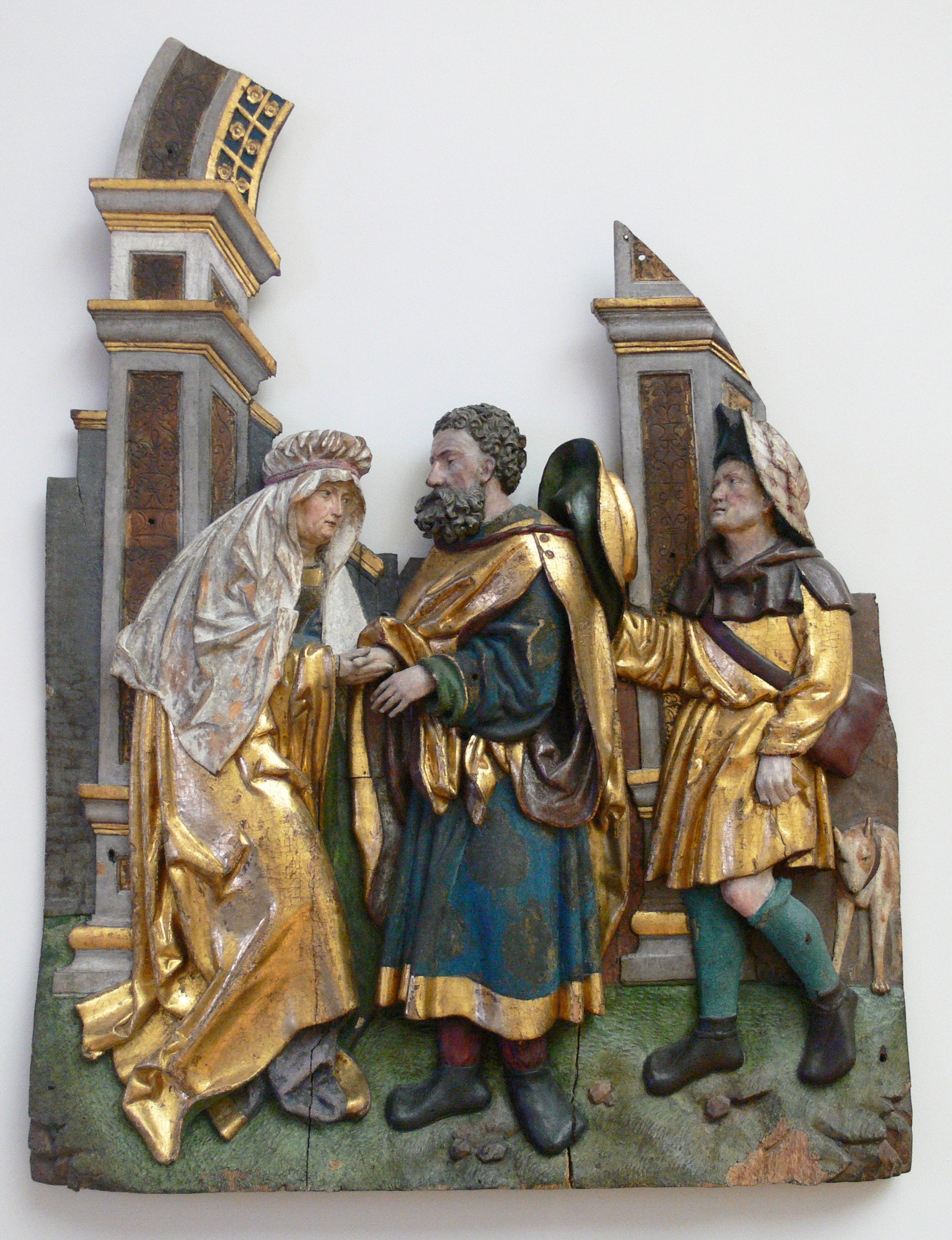 The Meeting of St. Anne and St. Joachim at the Golden Gate, Augsburg c. 1520; limewood, original colours. Skulpturensammlung (Inv. 8174, acquired in 1918, gift of James Simon), Bode-Museum Berlin.